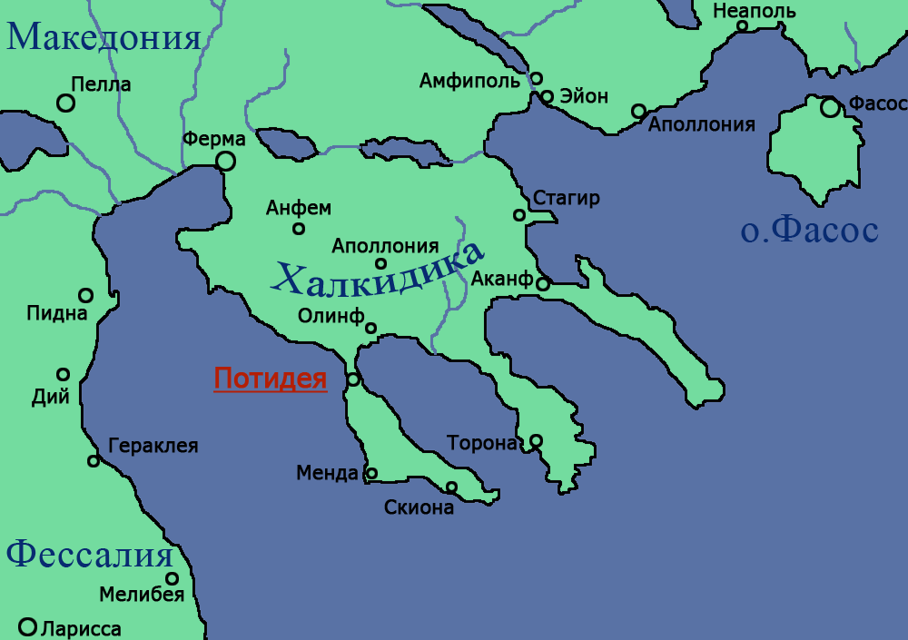 Potidaea